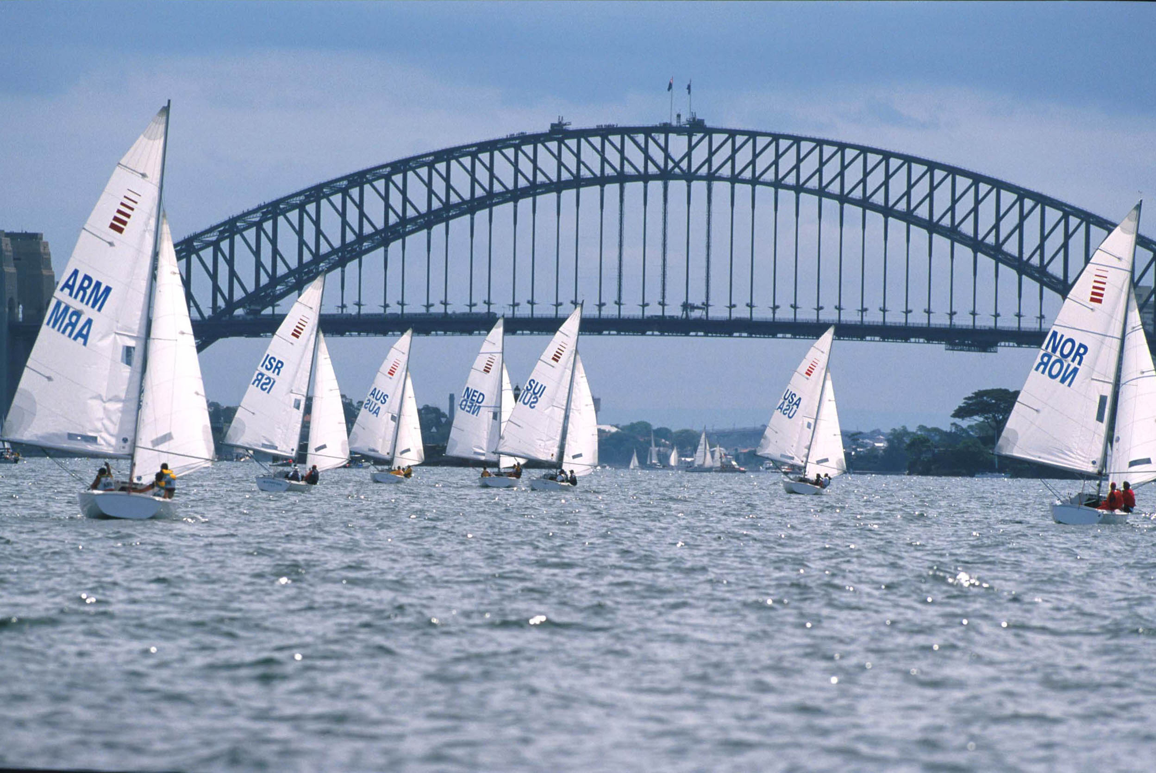 View of Sydney Harbour Bridge during 2000 Sydney Paralympic Games sailing race in the Sydney Harbour. Sailing boats for Armenia, Israel, Australia, Netherlands, Switzerland, United States of America and Norway are shown.